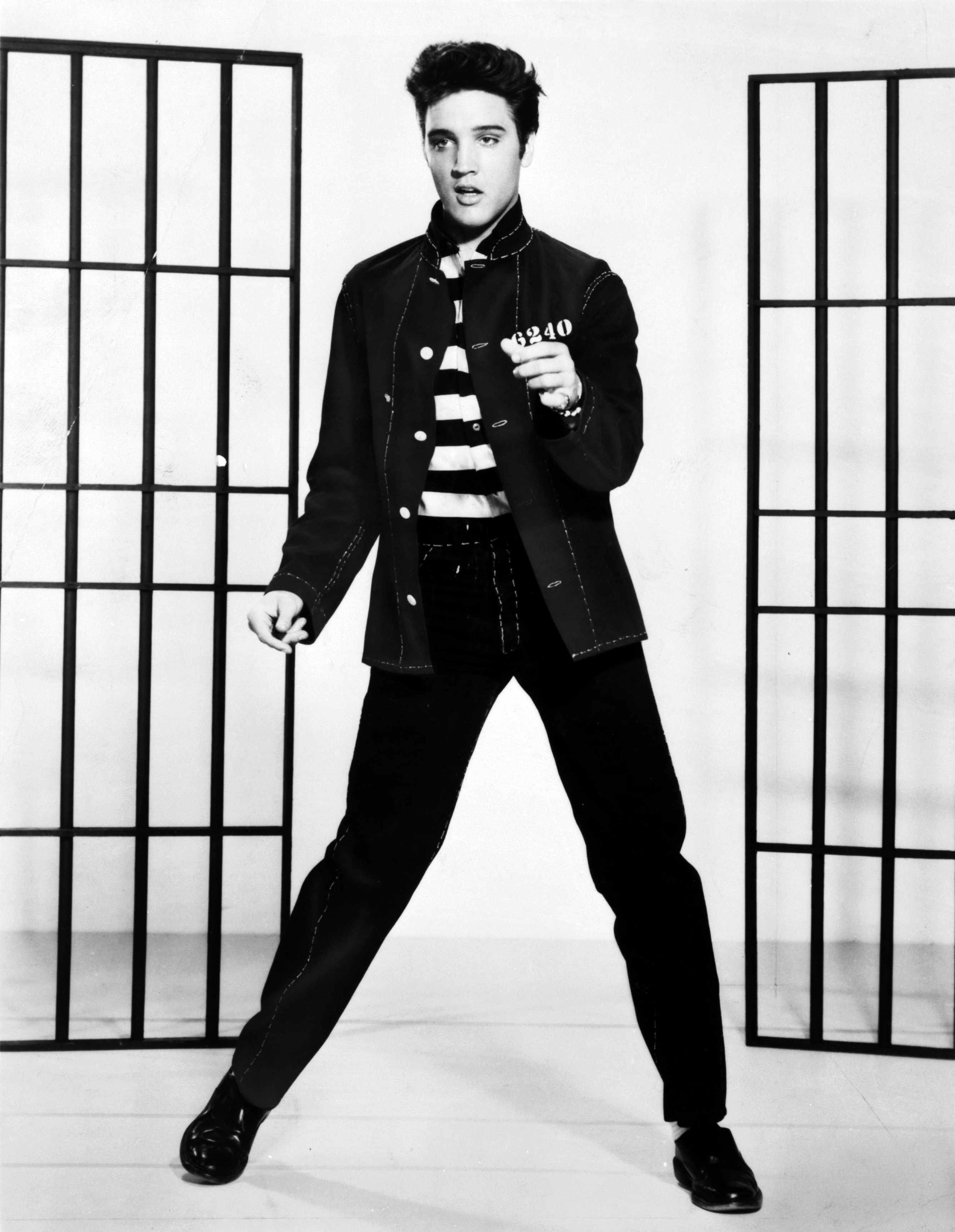 A photograph promoting the film Jailhouse Rock depicts singer Elvis Presley.